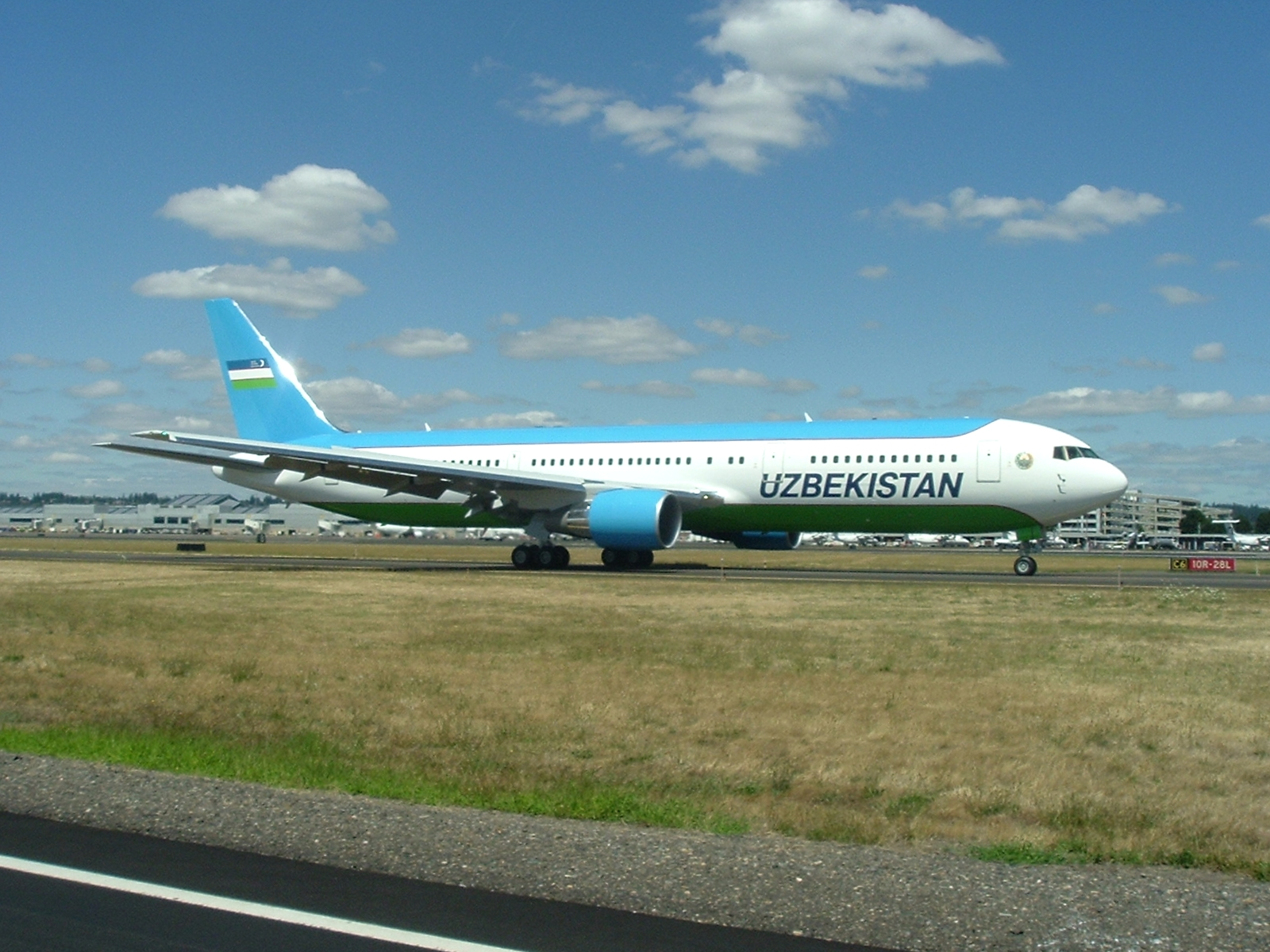 Fresh from paint hangar. Departing PDX for PAE.